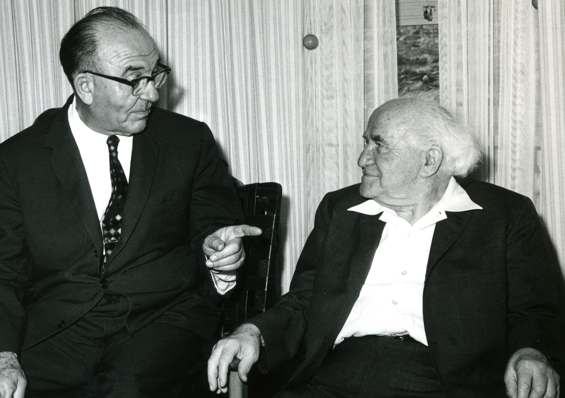 David Ben-Gurion and his successor Levi Eshkol, at Ben-Gurion's farewell party to the government ministers